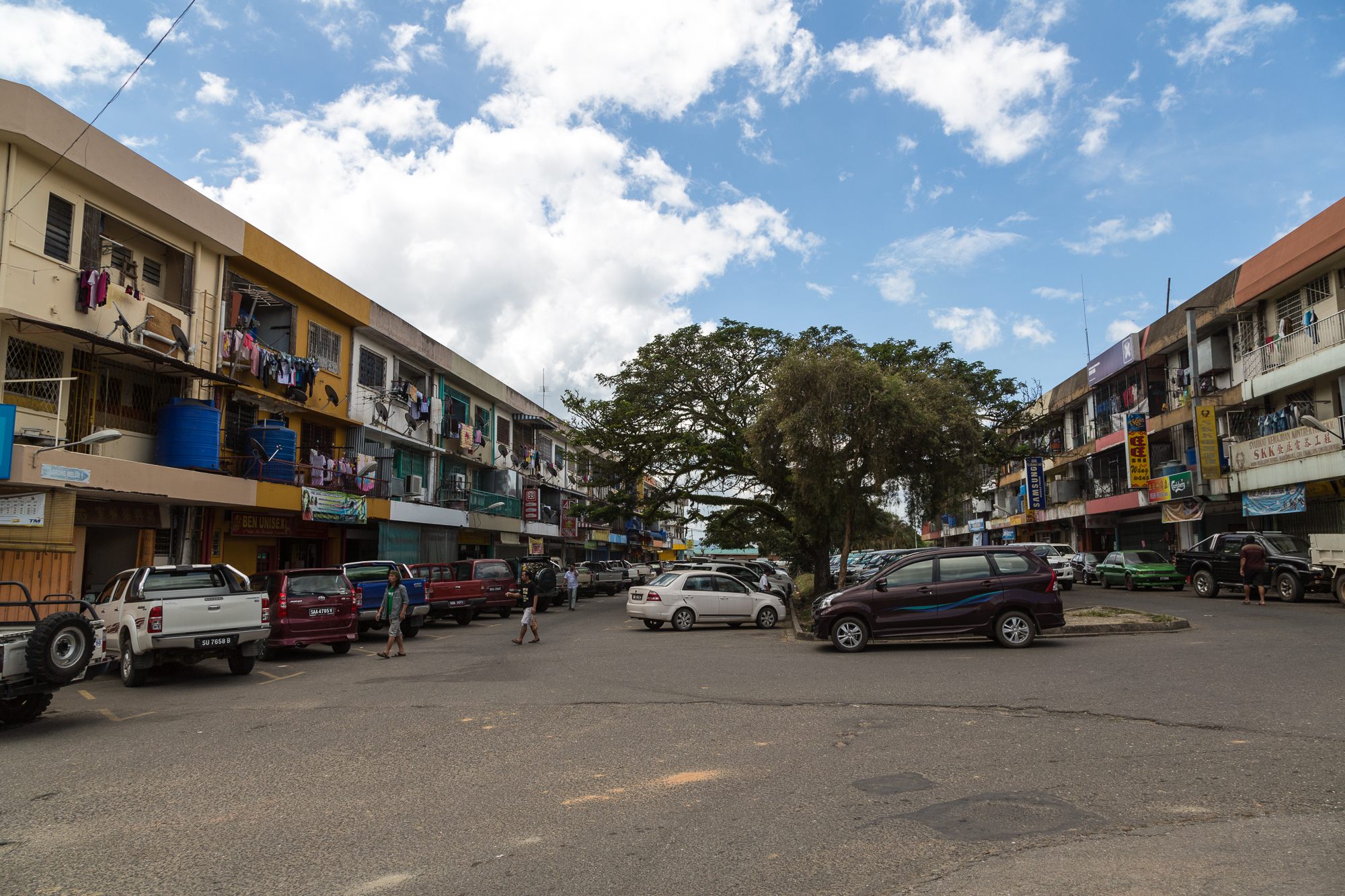 Keningau, Sabah: Street between Foo Loong Shopping Complex and Adika Commercial Complex.